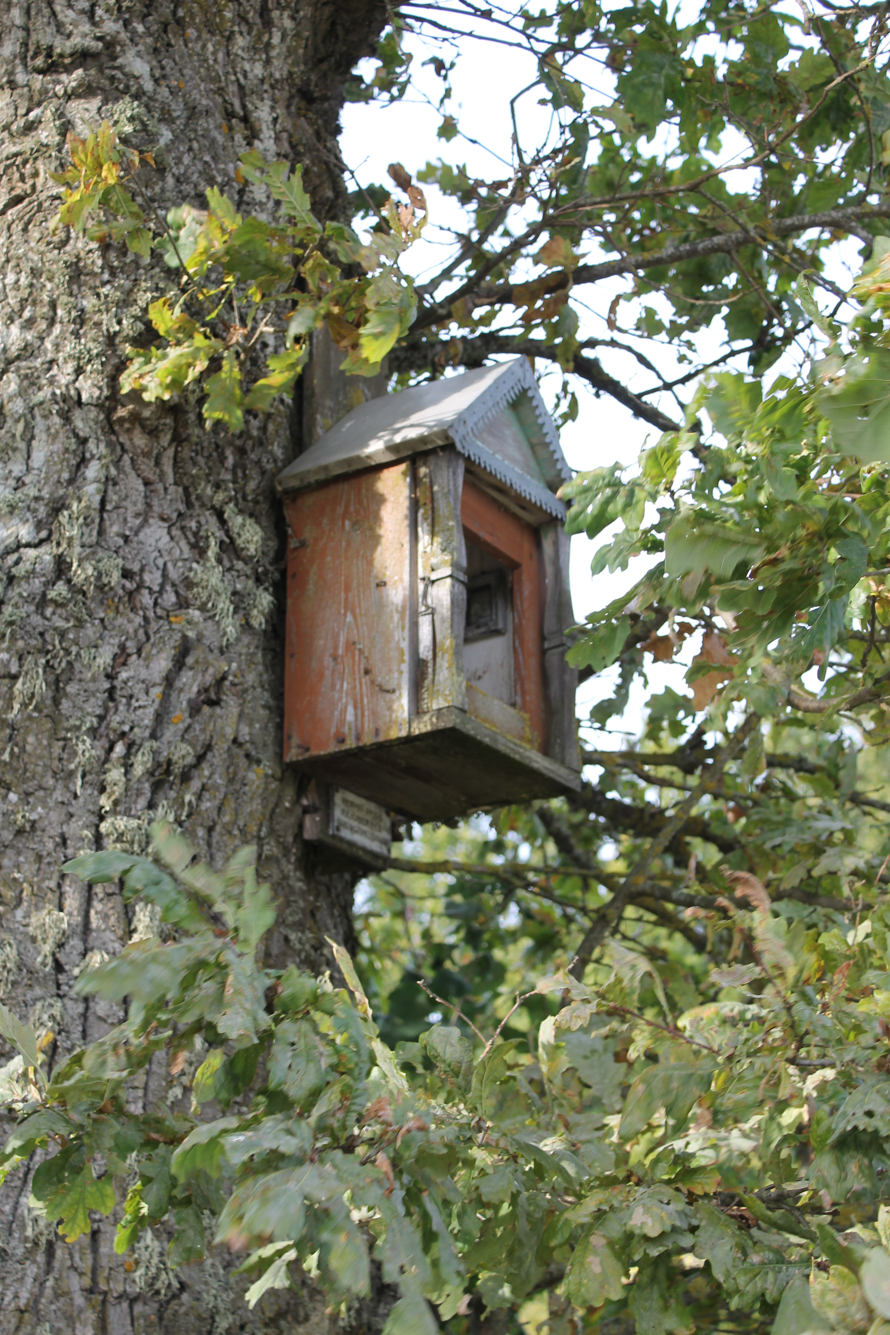 Mažieji Žalimai chapel, Kretinga district, Lithuania